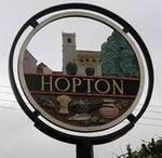 Picture of Hopton village sign